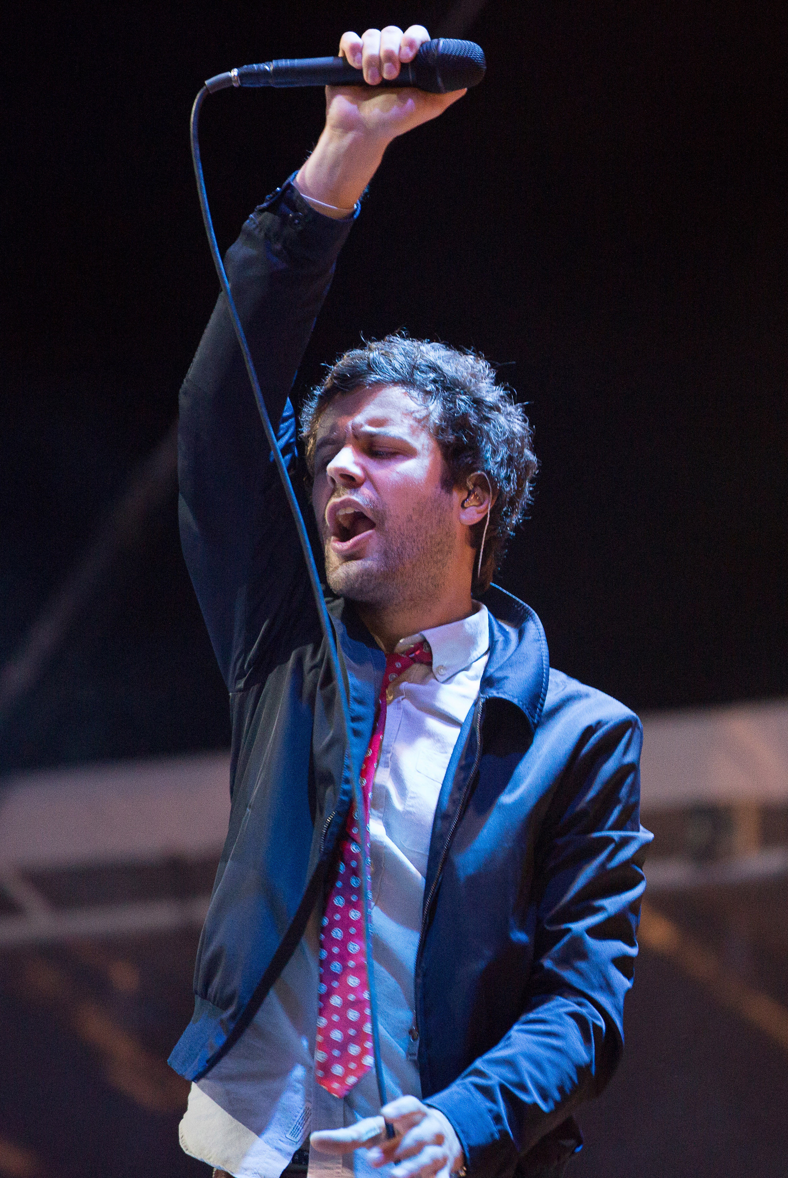 Michael Angelakos performing with Passion Pit in Charleston, South Carolina, in 2015.